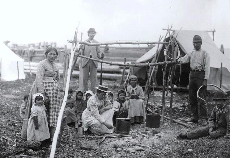 Photograph, Montagnais group, Lake St. John, QC, about 1898, Wm. Notman & Son, Silver salts on glass - Gelatin dry plate process - 20 x 25 cm